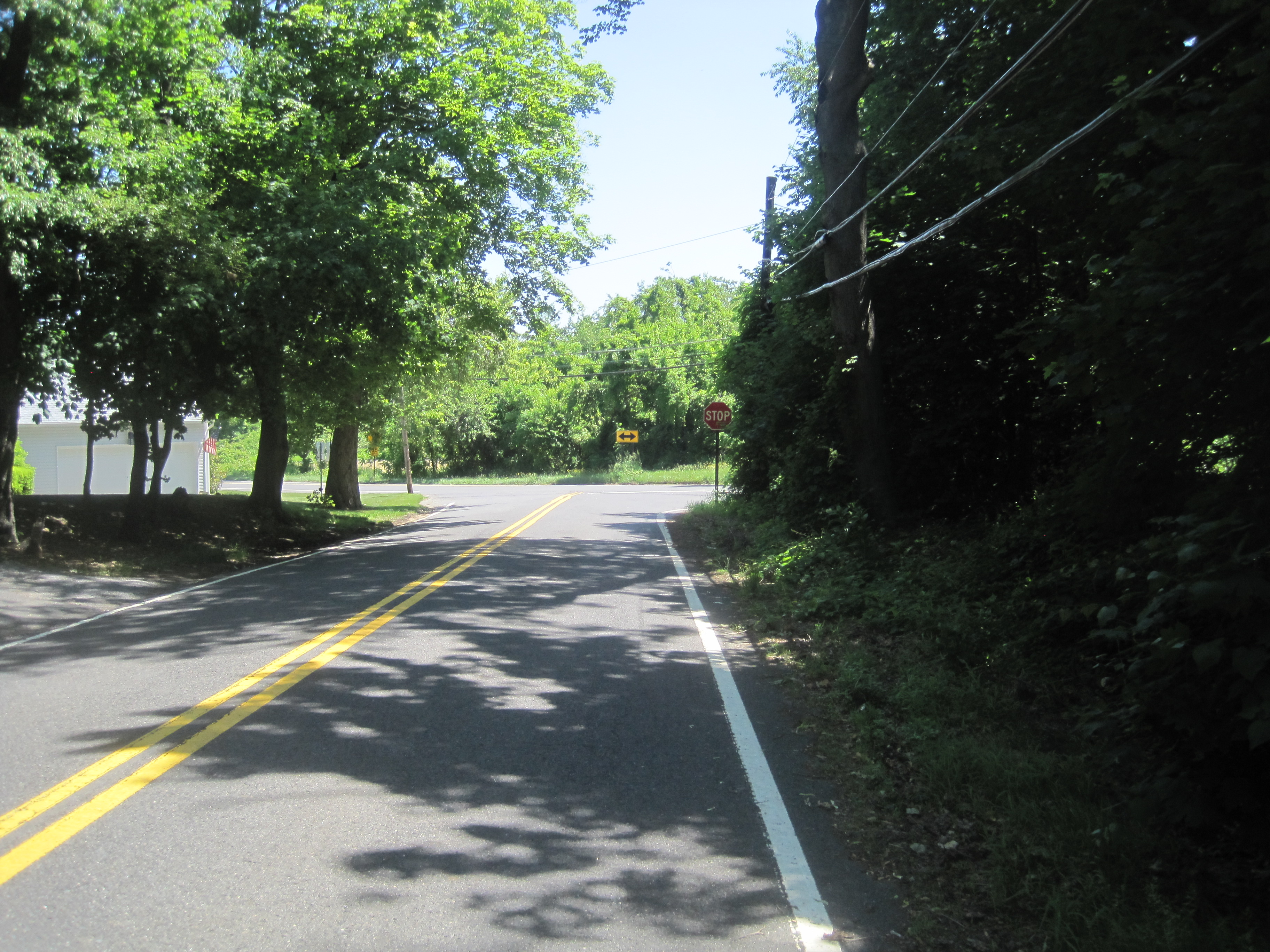 County Route 543 approaching its northern terminus at CR 545 in Mansfield Township, New Jersey.